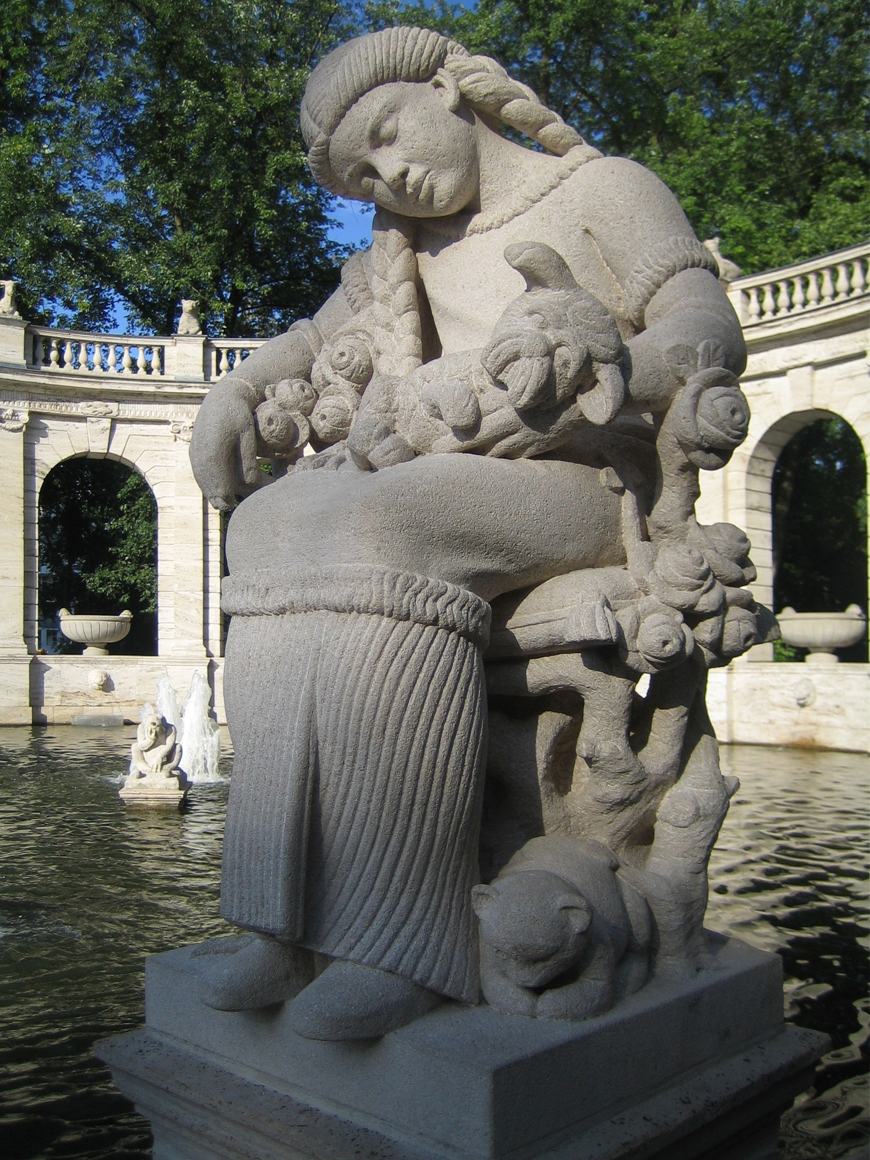 Friedrichshain locality of Berlin: Märchenbrunnen (fairy tale fountain) in the Volkspark Friedrichshain park, sculpture on the Brothers Grimm fairy tale «Sleeping Beauty» by Ignatius Taschner.